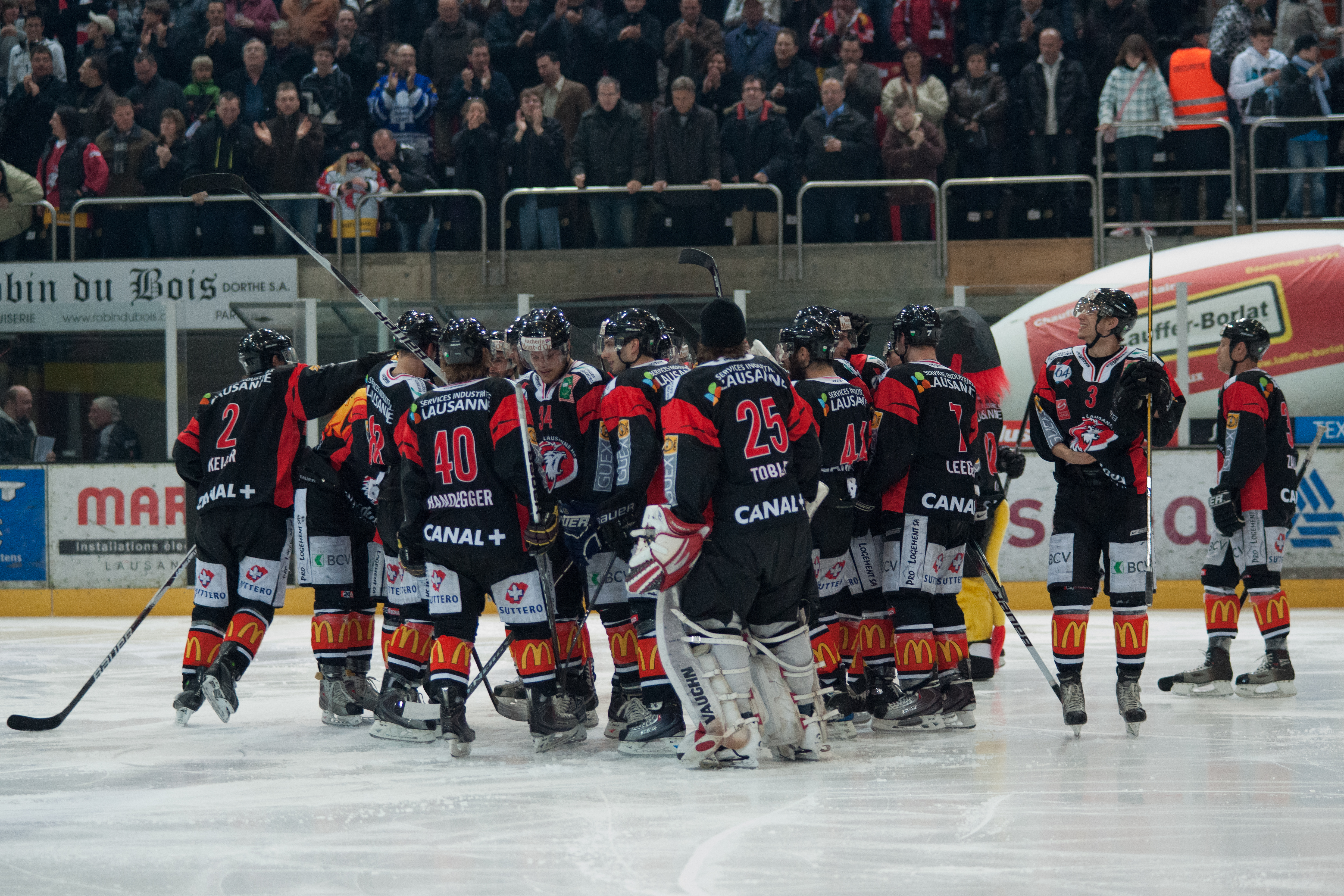 The making of this document was supported by Wikimedia CH. (Submit your project!) For all the files concerned, please see the category Supported by Wikimedia CH.